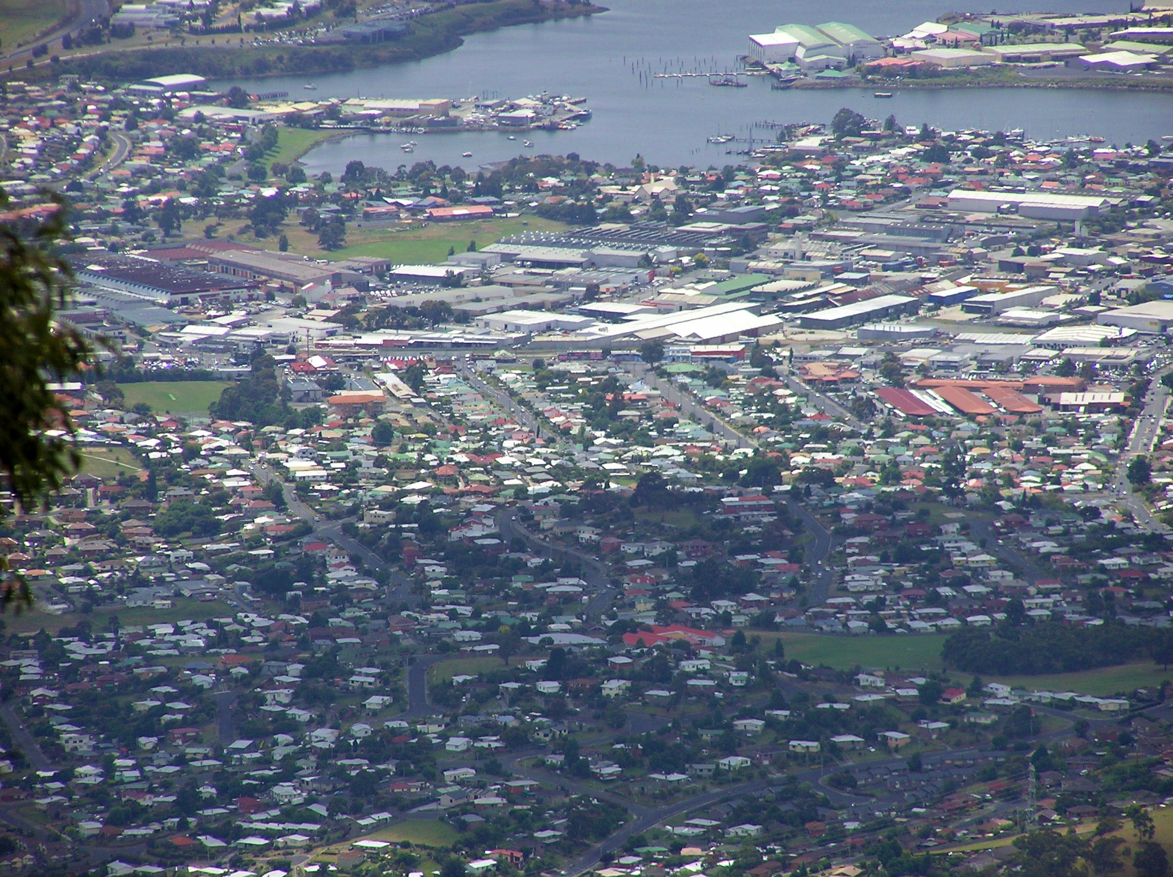 Derwent Park and Springfield (foreground) suburbs of Hobart Tasmania, from Lost World